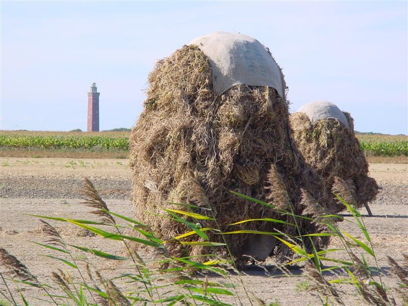 Typical landscape in Ouddorp, The Netherlands, with the lighthouse and "ruiters".